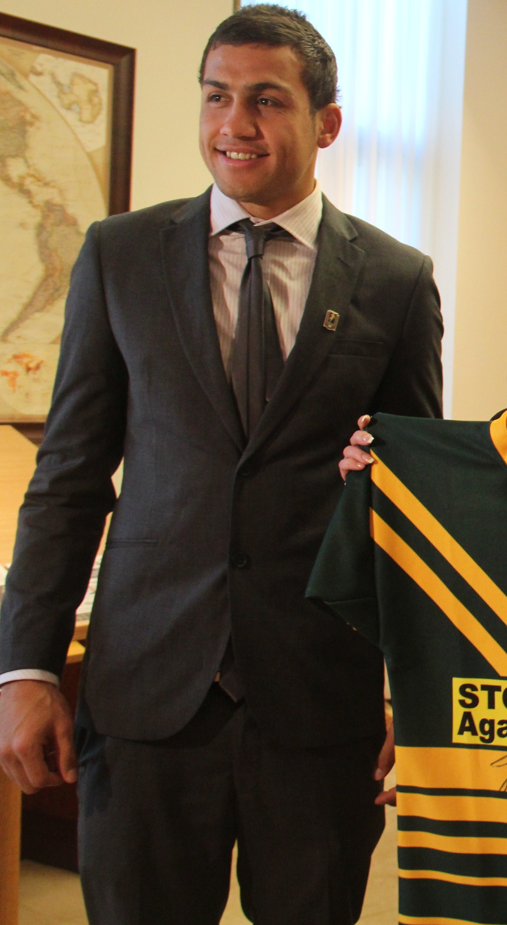 Using sport to raise awareness of violence against women in PNG. Prime Minister Julia Gillard signs a jumper before the PM's XIII sets of for PNG. Canberra 2011. Photo: AusAID